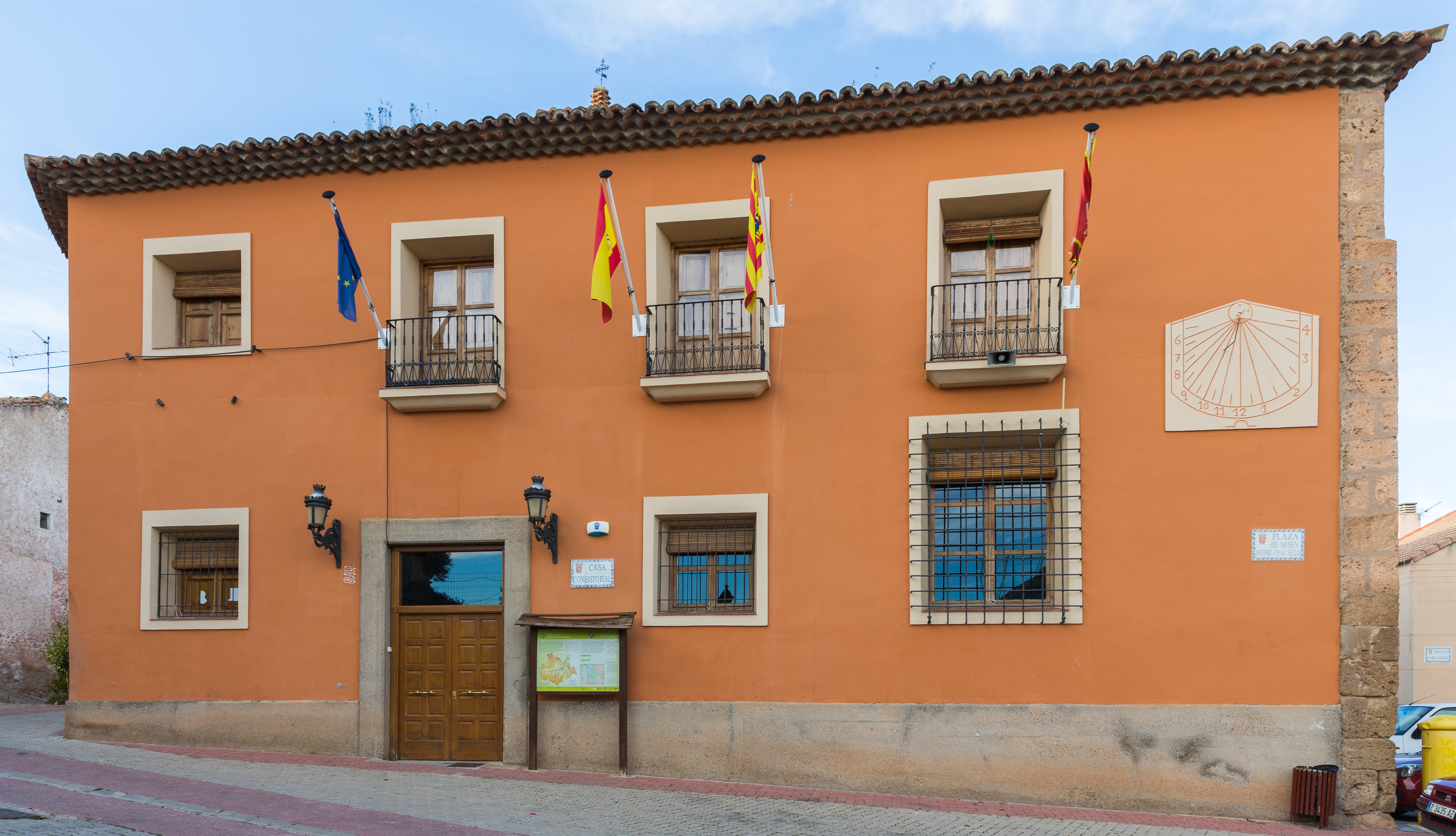 Town hall, Nuévalos, Zaragoza, Spain